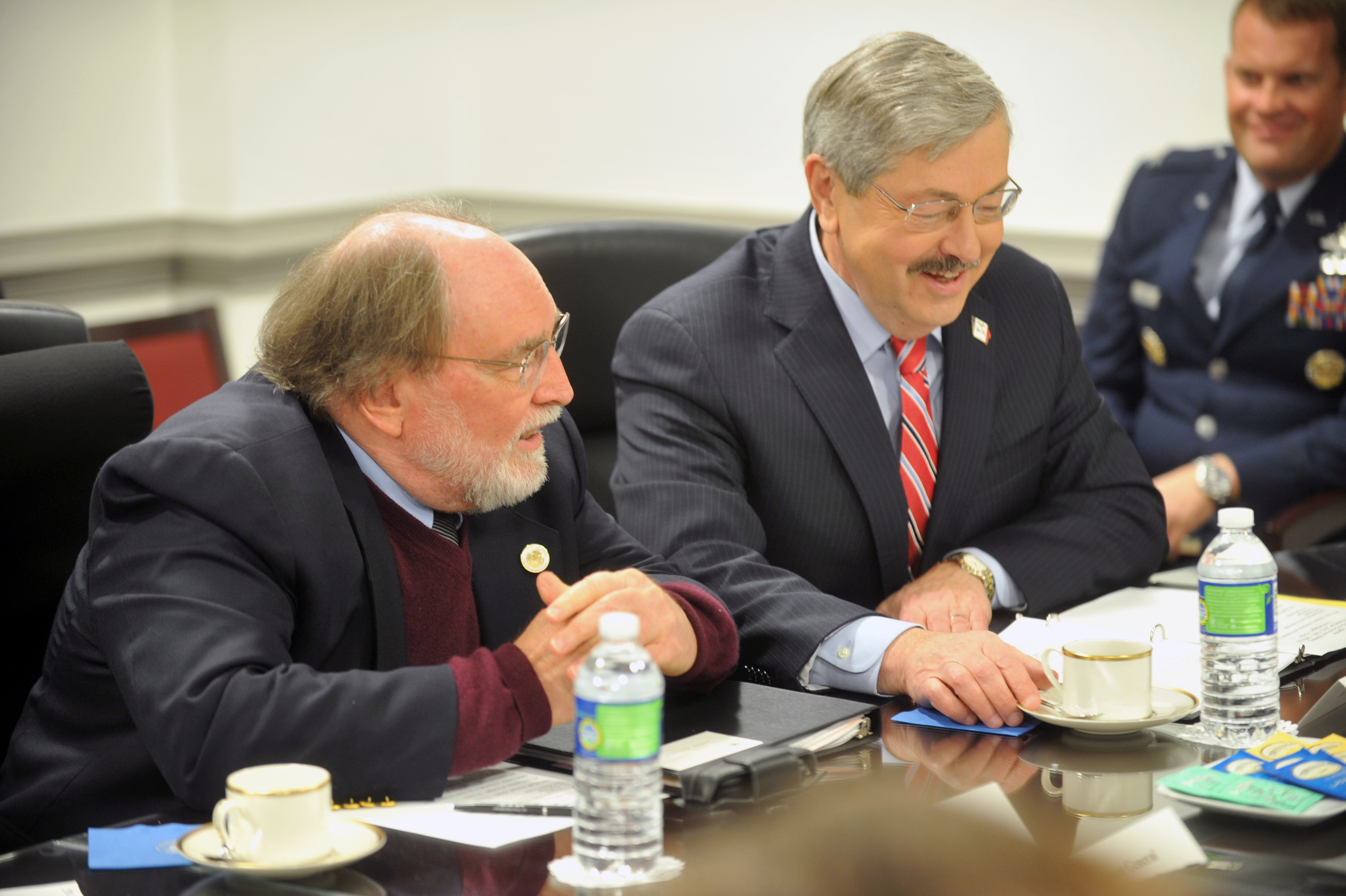 Hawaii Gov. Neil Abercrombie, a member of the Council of Governors, and Iowa Gov. Terry Branstad, council co-chair, meet with Army Gen. Frank Grass, the chief of the National Guard Bureau, at the Pentagon on Nov. 13, 2012. (Army National Guard photo by Sgt. 1st Class Jim Greenhill) (Released)